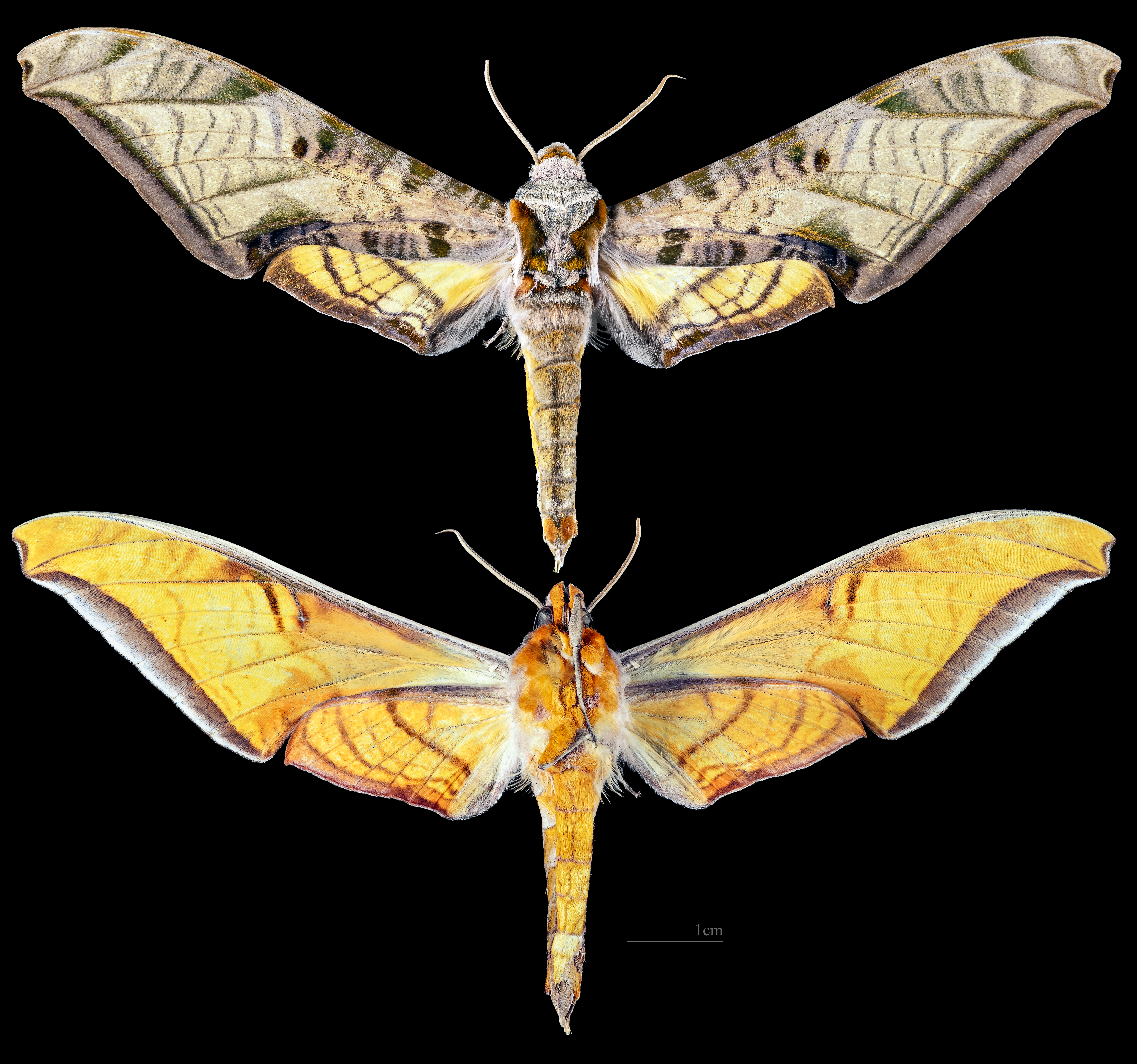 Protambulyx ockendeni - Two views of same specimen Collection of the Mathematician Laurent Schwartz